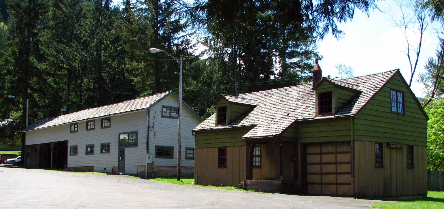 Interpretive Services Office and Maintenance Building (#2216, built in 1931) and Recreation and Trail Crew Warehouse (#2214, also built in 1931) at the historic Zigzag Ranger Station (built 1917), located at 70220 East Highway 26 in Zigzag, Oregon, United States, is listed on the US National Register of Historic Places.